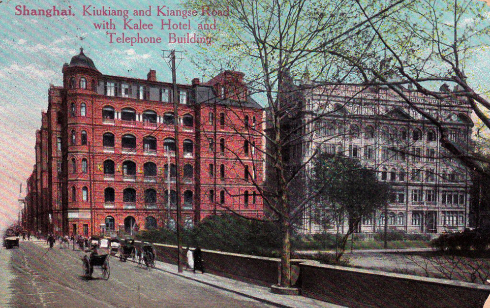 Photo of Ka Lee Hotel in Shanghai circa 1914